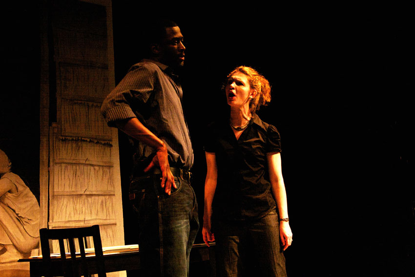 Jason and Marta in the Canadian play She Has a Name